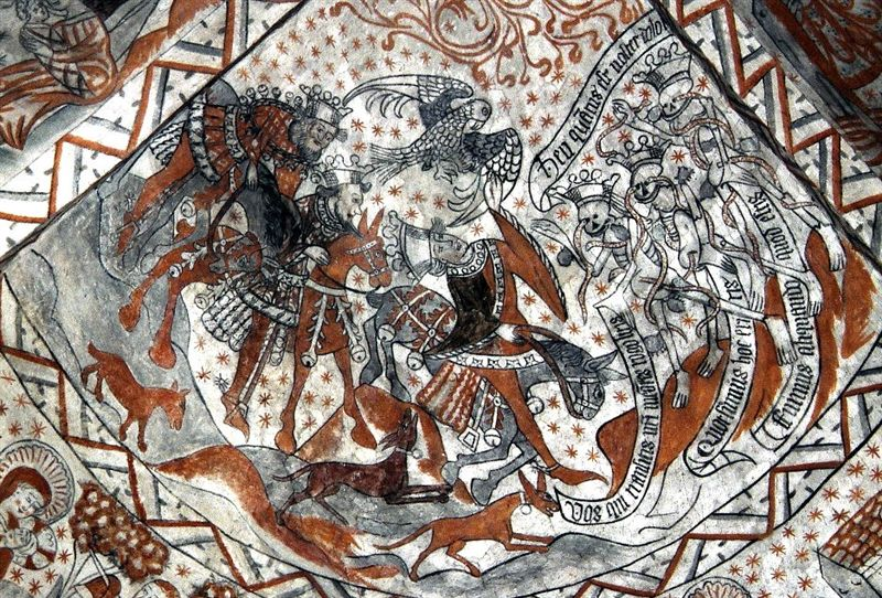 Frescoes by The Isefjord Master from apr. 1460-1480 in Tuse Kirke (church)